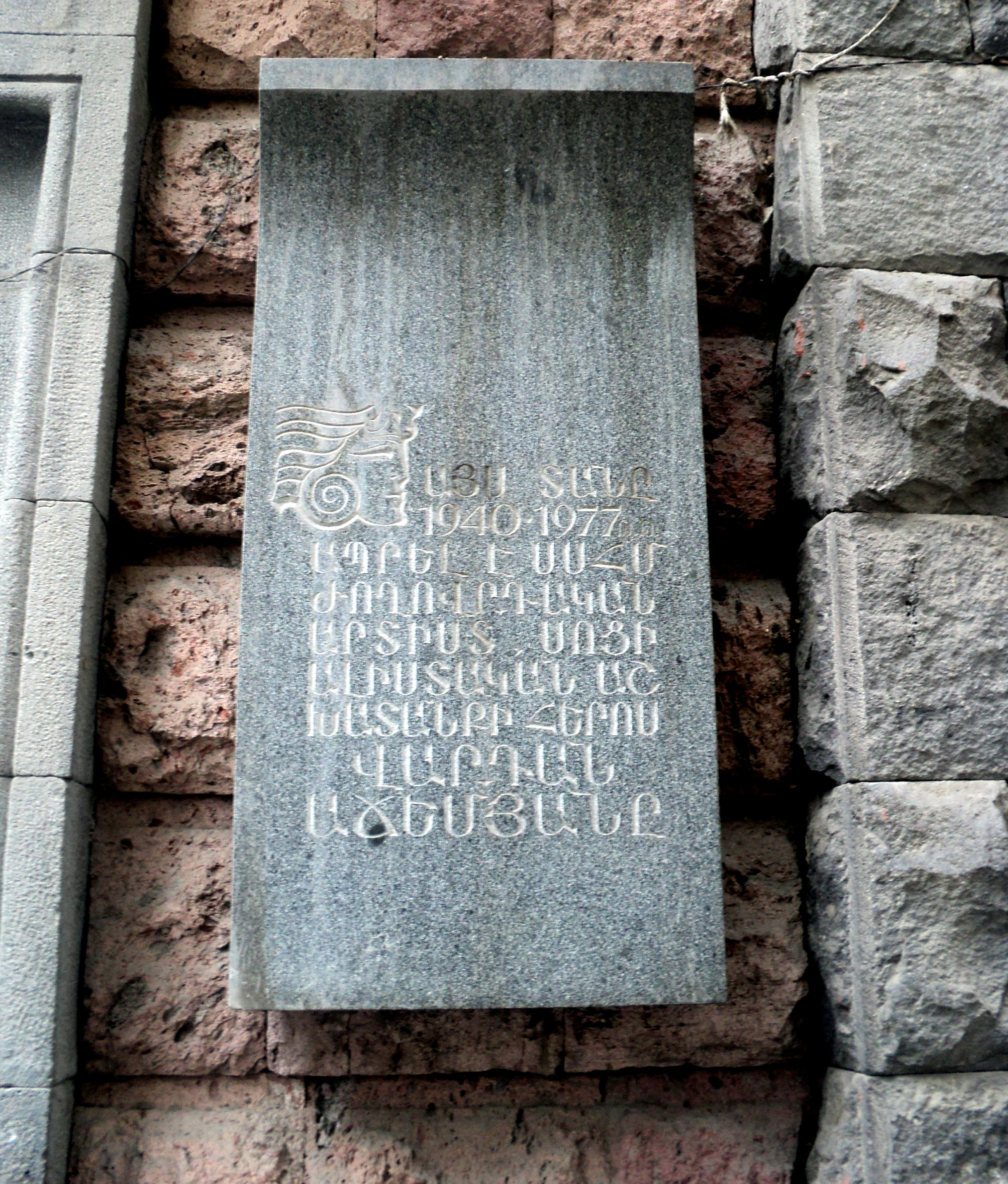 Vardan Achemyan's Plaque in Yerevan